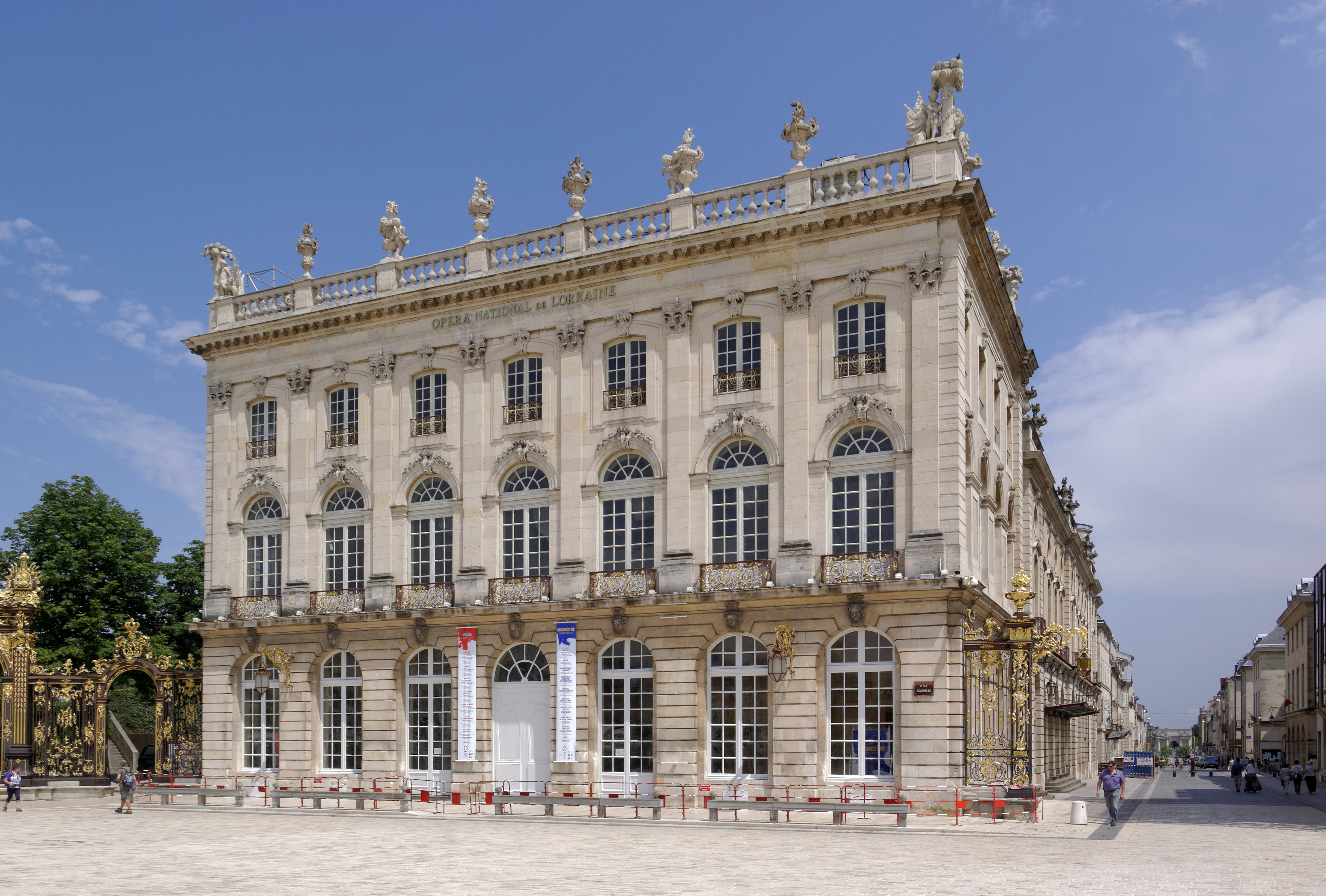 France, Nancy, Opéra national de Lorraine au 4 place Stanislas